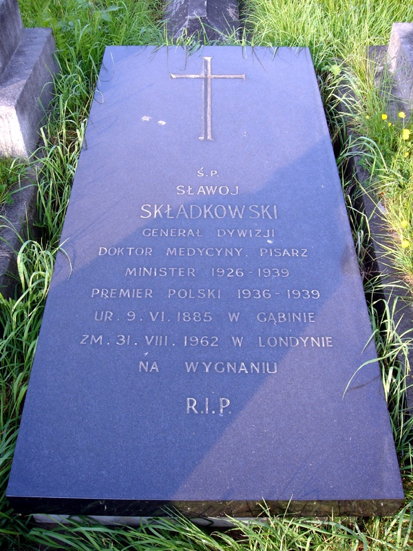 Felicjan Sławoj Składkowski funerary monument, Brompton Cemetery, London